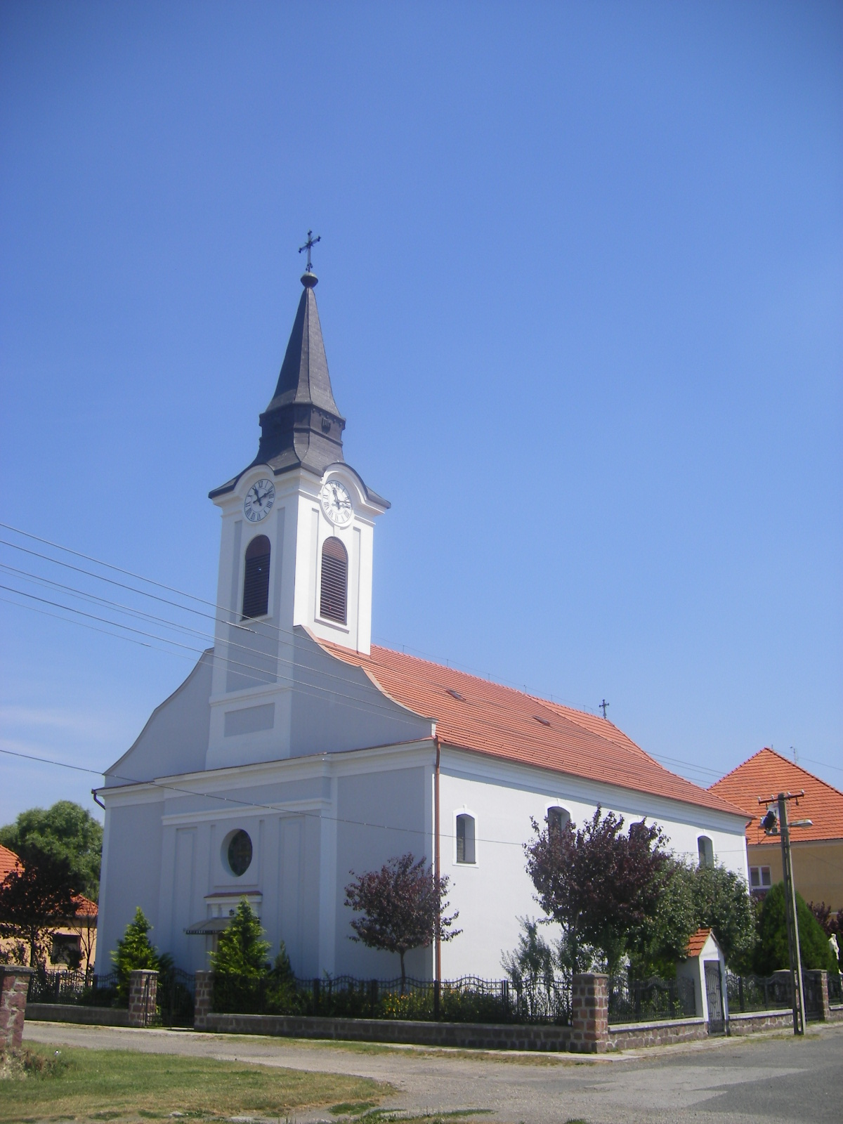 Tárkány (Komárom-Esztergom county) - catholic church This is a photo of a monument in Hungary, Identifier: 6480